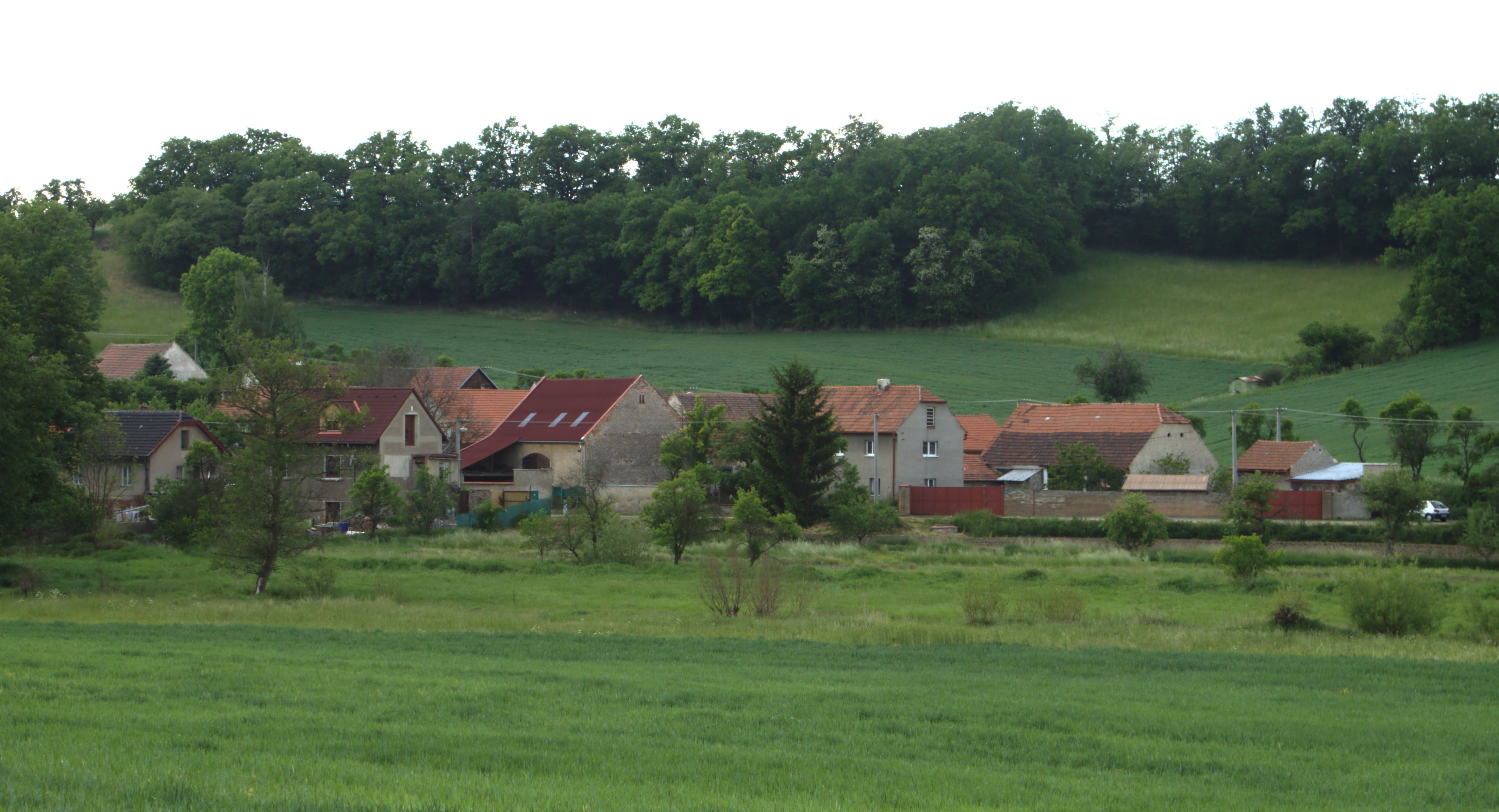 View of the Týnec village near Koleč, Central Bohemian Region, CZ